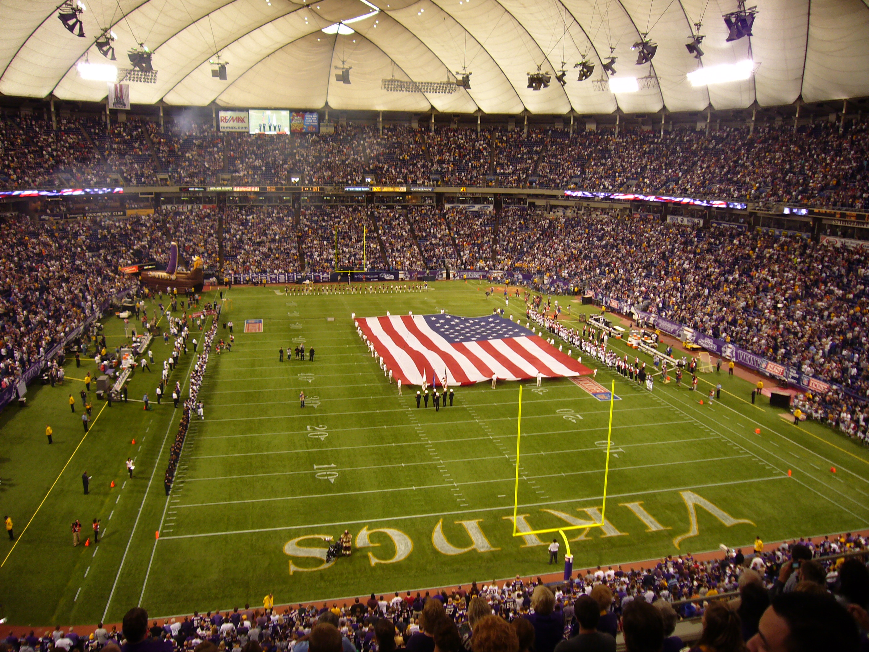 Created by user and released into the public domain. 01:07, 10 September 2007 . . Dlz28 . . 2816×2112 (1.9 MB)